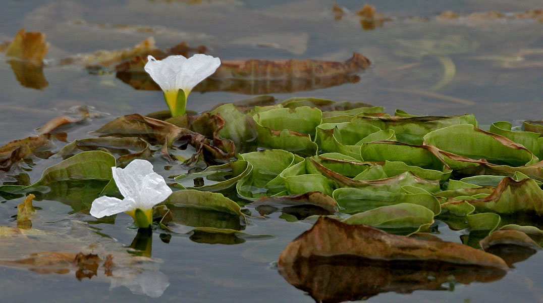 Ottelia alismoides (Syn. Stratiotes alismoides - Duck Lettuce, Water-plantain ottelia • Marathi: Olek-alsem • Tamil: Nirkkuliri • Malayalam: Ottel-ambel • Telugu: Edukula thaamara, Neeru veniki • Kannada: Hasiru neeru paathre, Kottigensu balli • Bengali: Parmikalla- in Hyderabad, India.